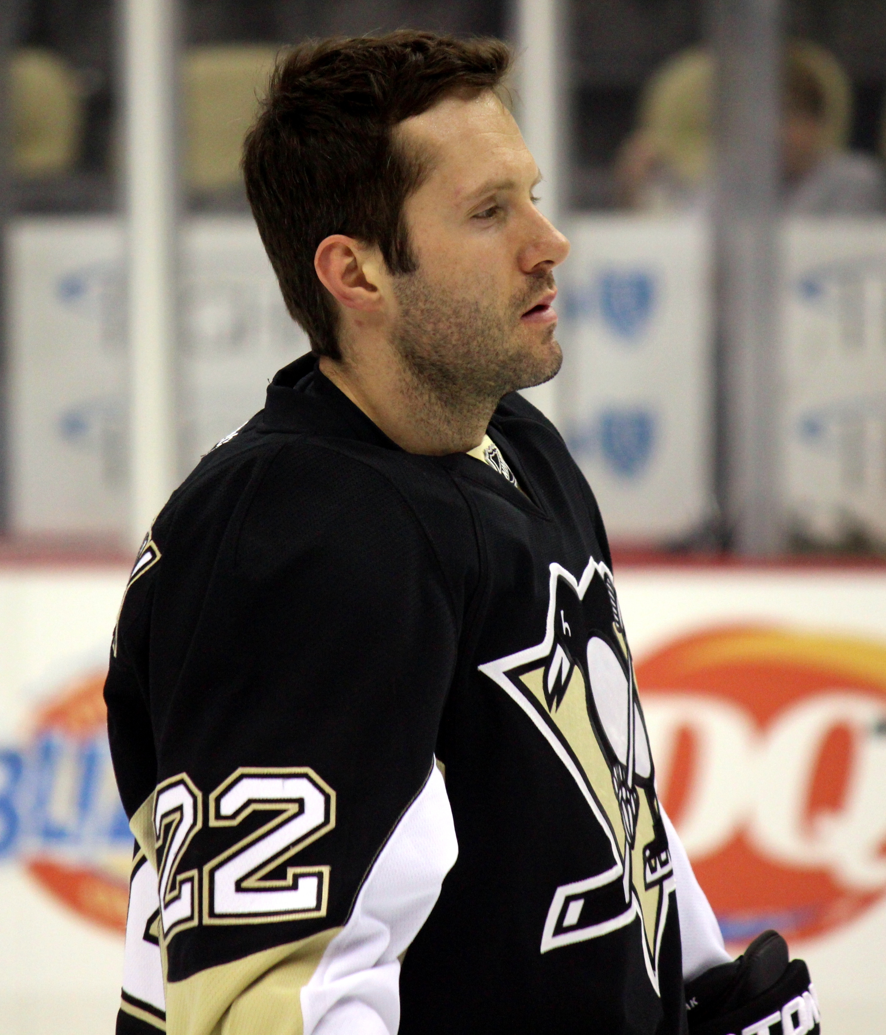 Pittsburgh Penguins forward Lee Stempniak skates against the Tampa Bay Lightning, March 22, 2014, at Consol Energy Center in Pittsburgh, PA.